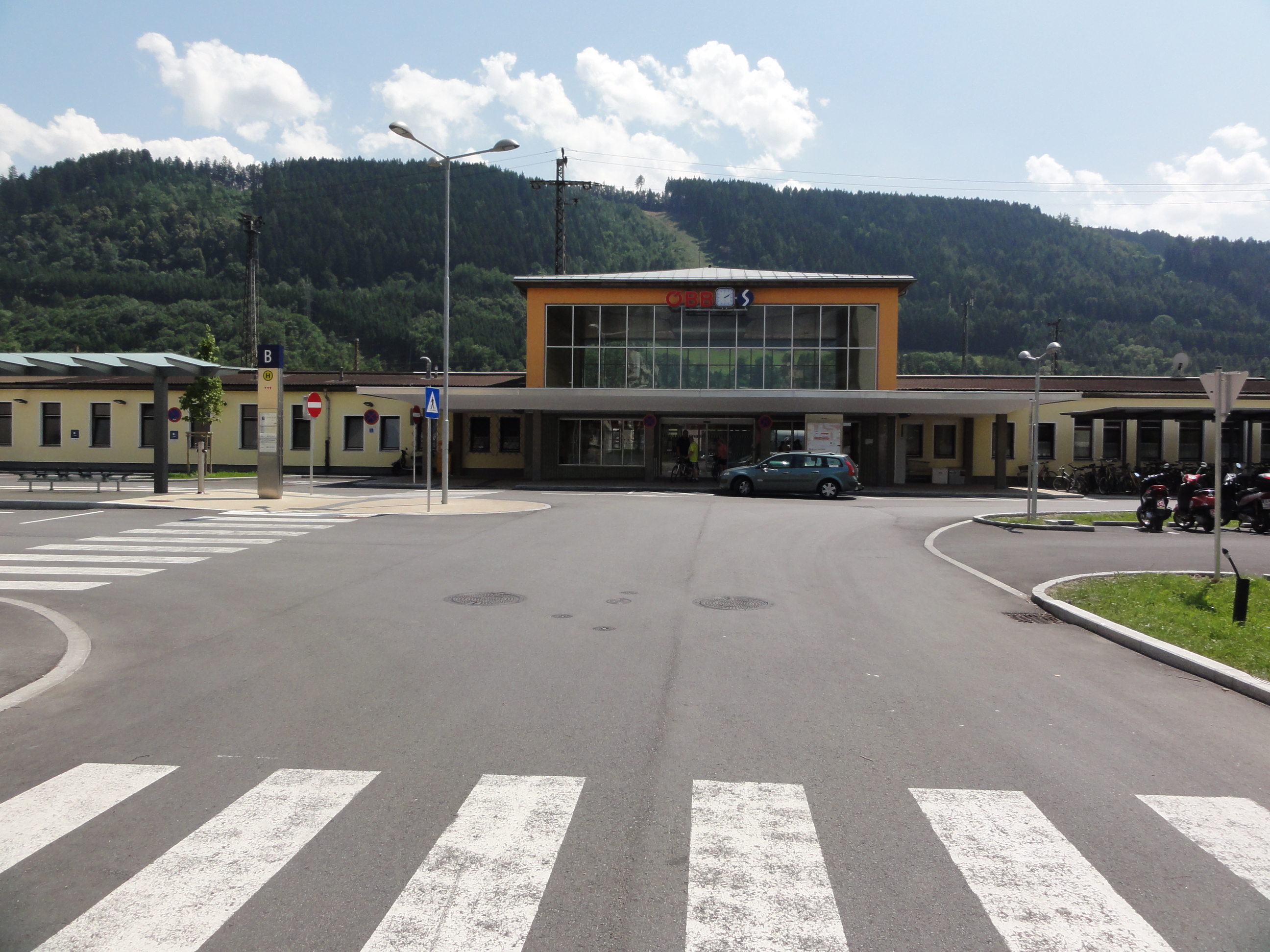 Austria, Hall in Tirol